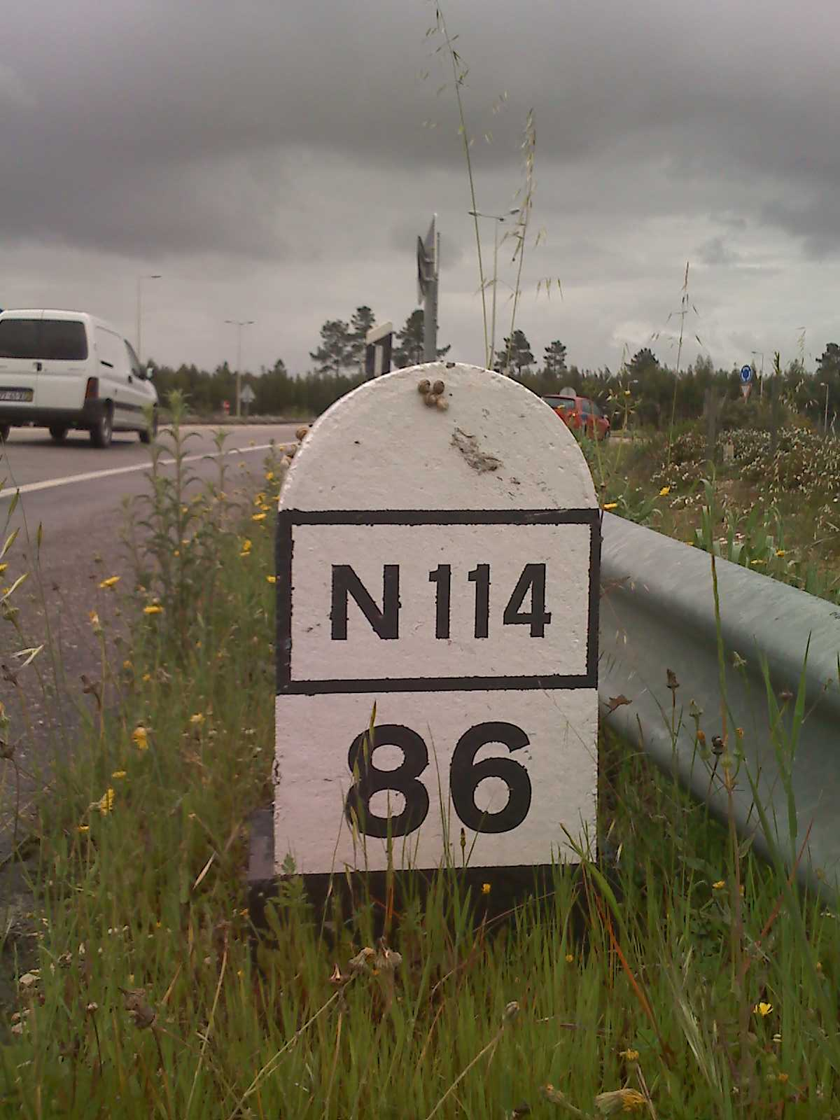 Portuguese Road N114 kilometer milestone